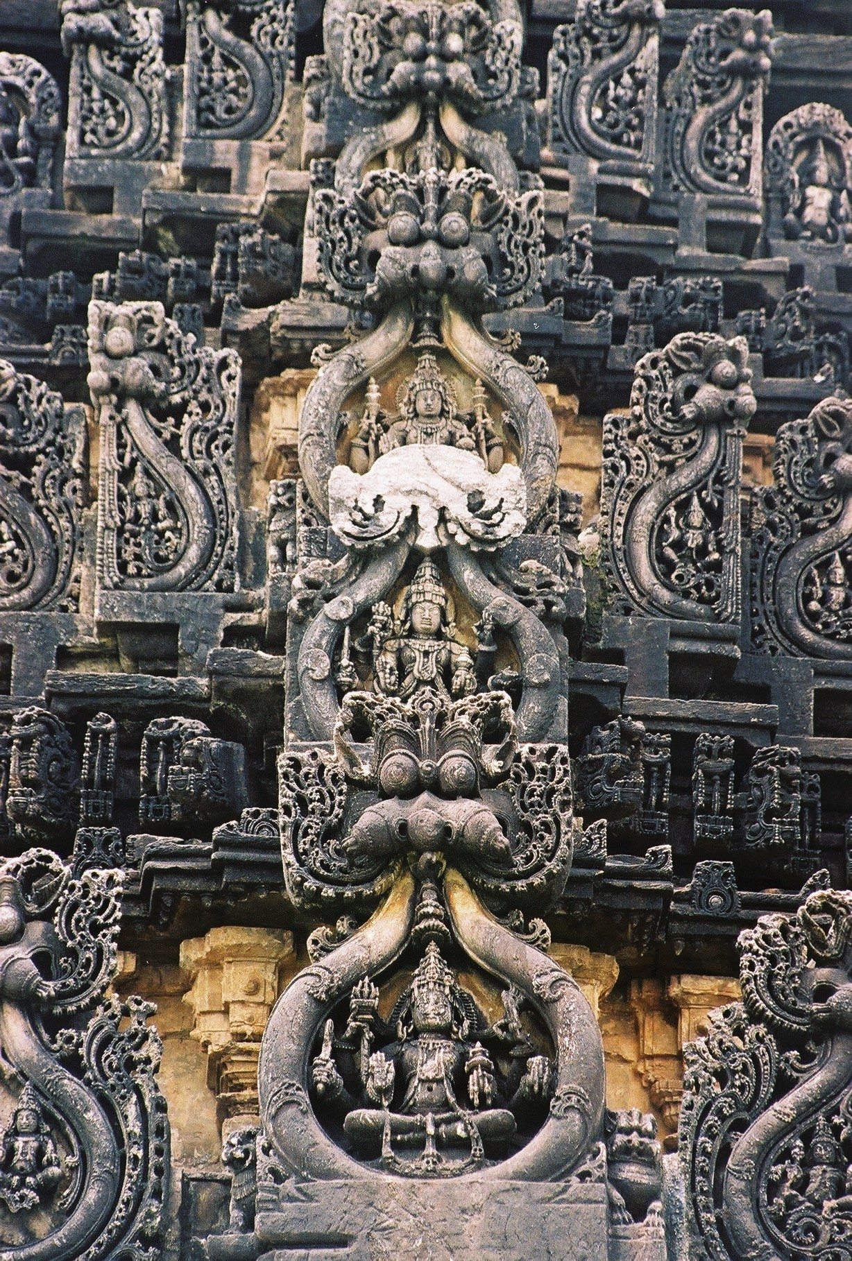 The Amruteshvara temple (also spelt "Amrutesvara" or "Amruteshwara"), is located in the town of Amruthapura, in the Chikkamagaluru district of the Karnataka state, India. The temple was built in 1196 C.E. during the rule of Hoysala Empire King Veera Ballala II.